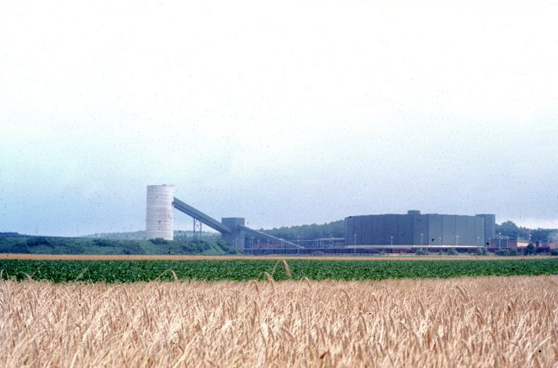 Coal Mine Sophia-Jacoba Huckelhoven Germany, Shaft 6 Ratheim and coal wash